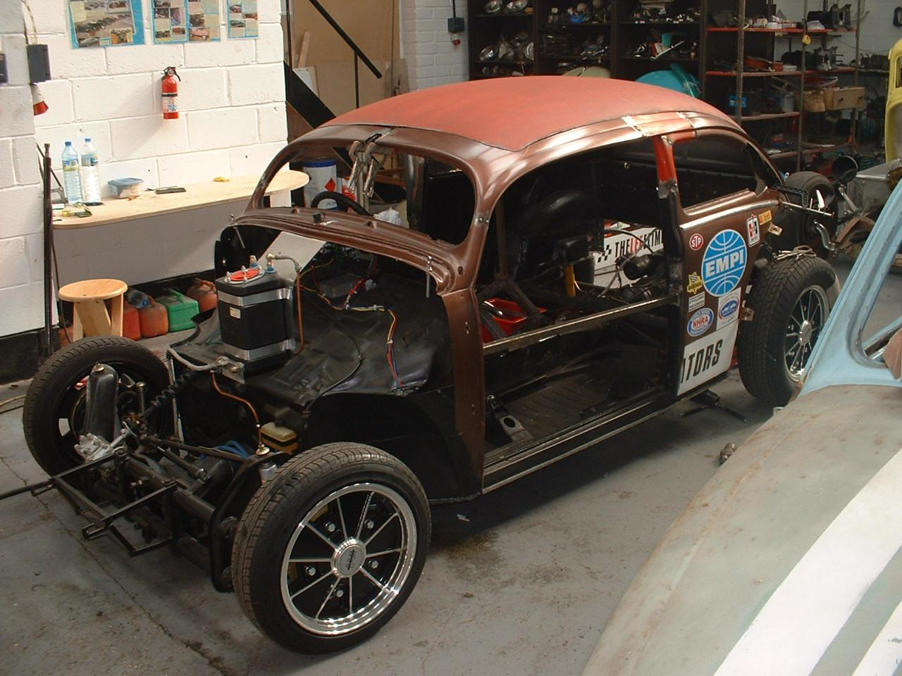 In this picture the chop is almost complete. Note how much smaller the rear side windows are when compared to a stock VW Beetle. Author Matt Dolby, source url